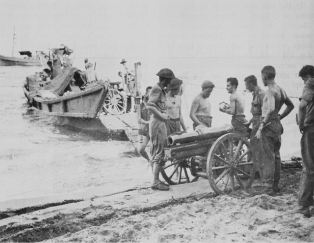 USA-P-Papua-p170 AUSTRALIAN 3.7 INCH PACK HOWITZER is dismantled before being loaded on a Japanese motor-driven barge which was captured at Milne Bay. milner